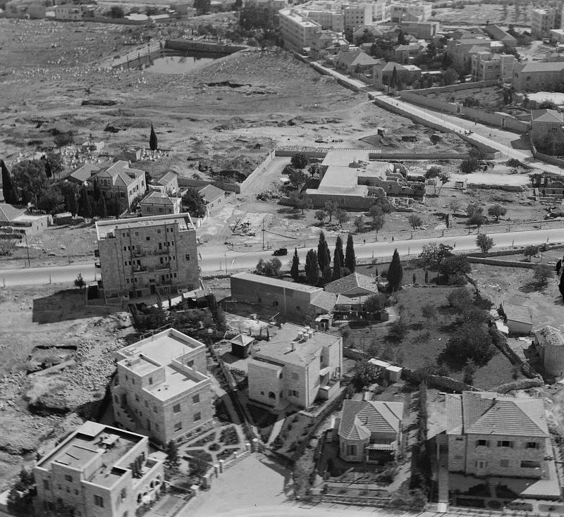 Aerial view, Jerusalem: Rehavia neighborhood and Mamilla Cemetery and Pool, viewed from west